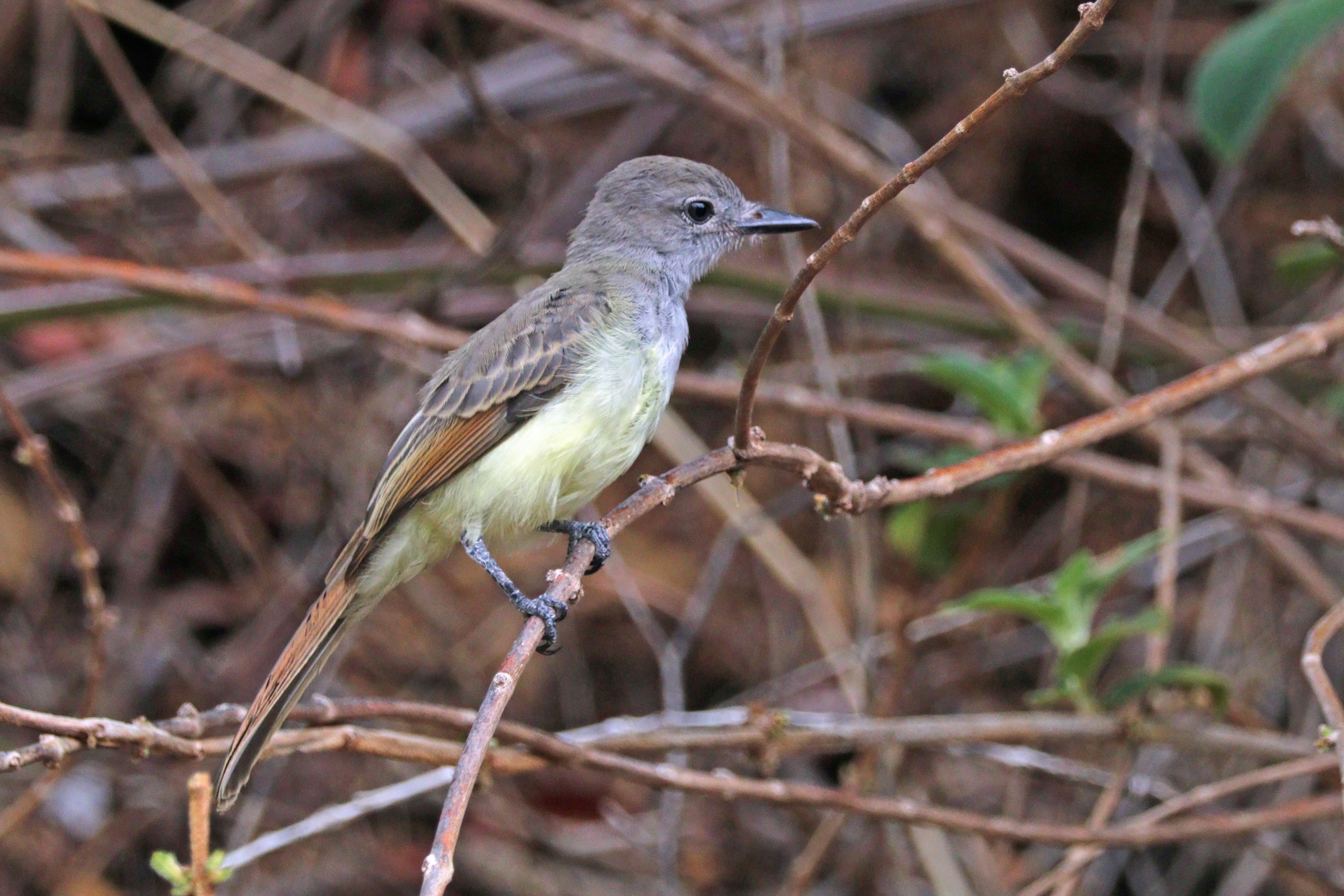 Great crested flycatcher (Myiarchus crinitus), Parida island, Panama